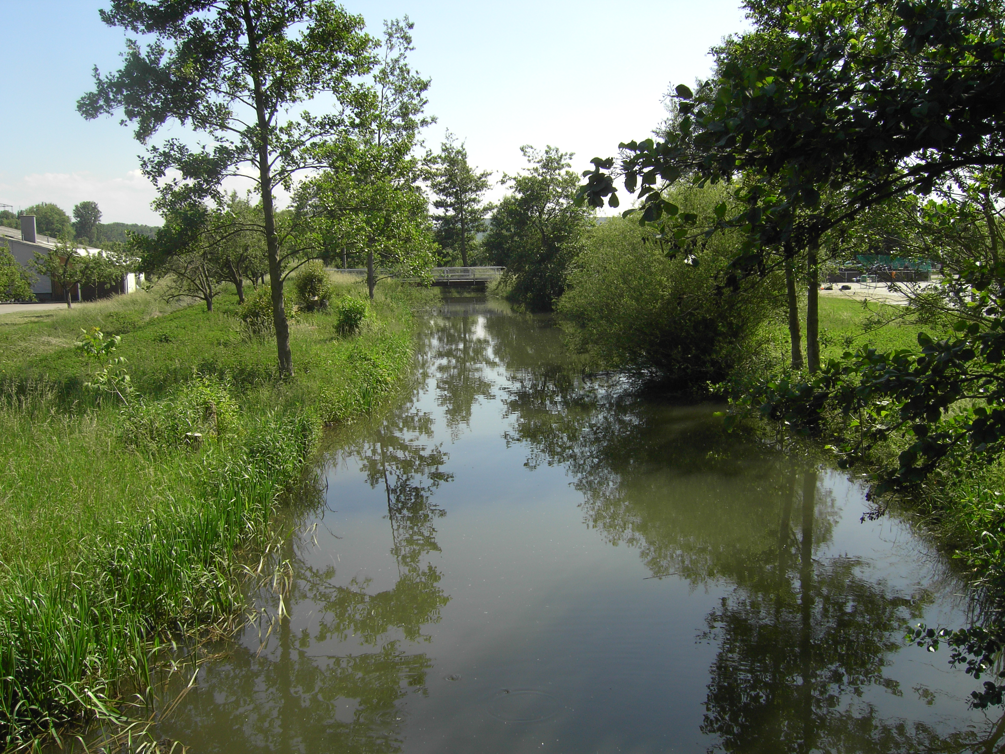 The 'Pfinz' at Stutensee-Blankenloch, a right-side tributary of the Rhine River